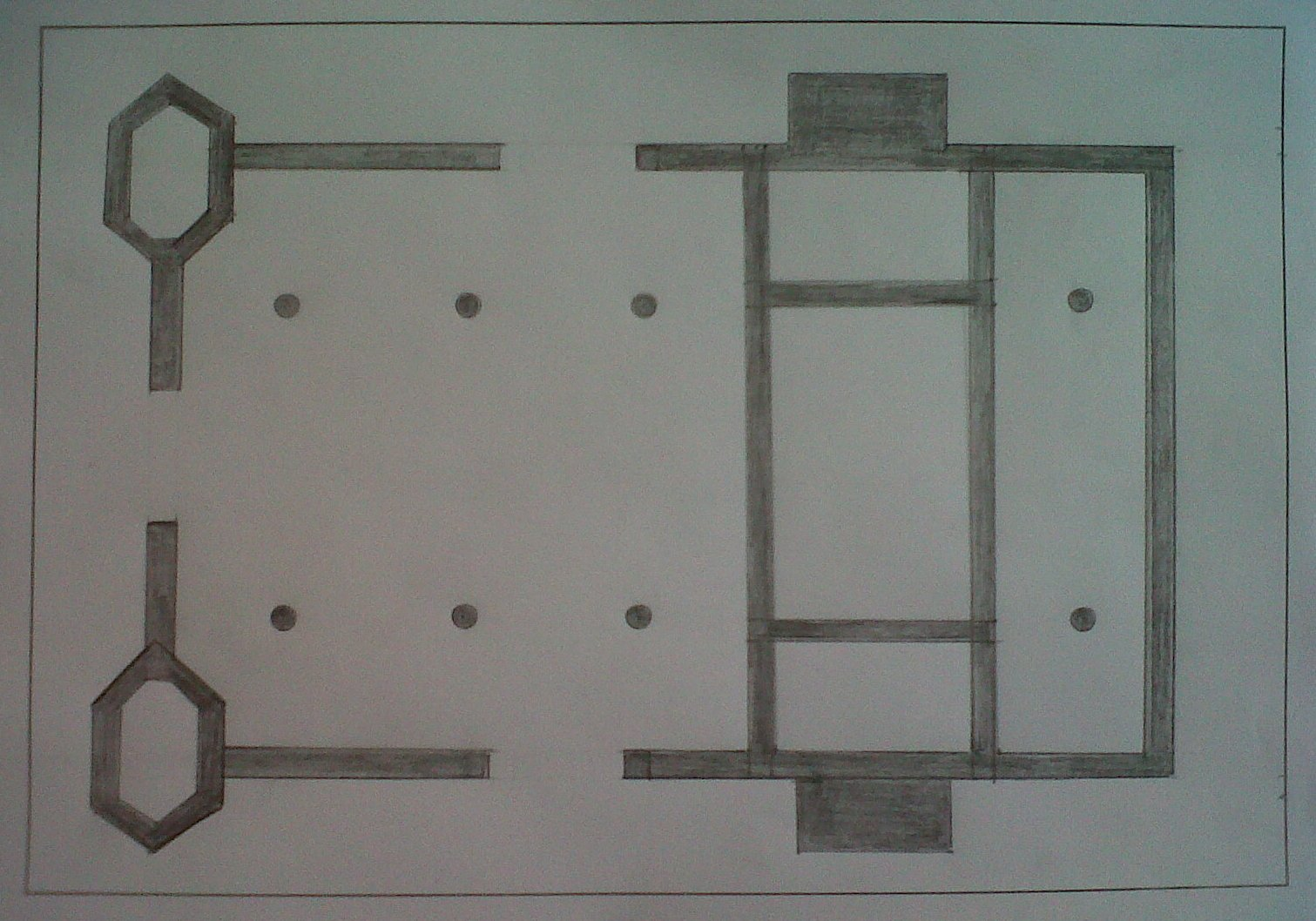 Design of the Cathedral of Santa Rosa de Copan, Honduras.